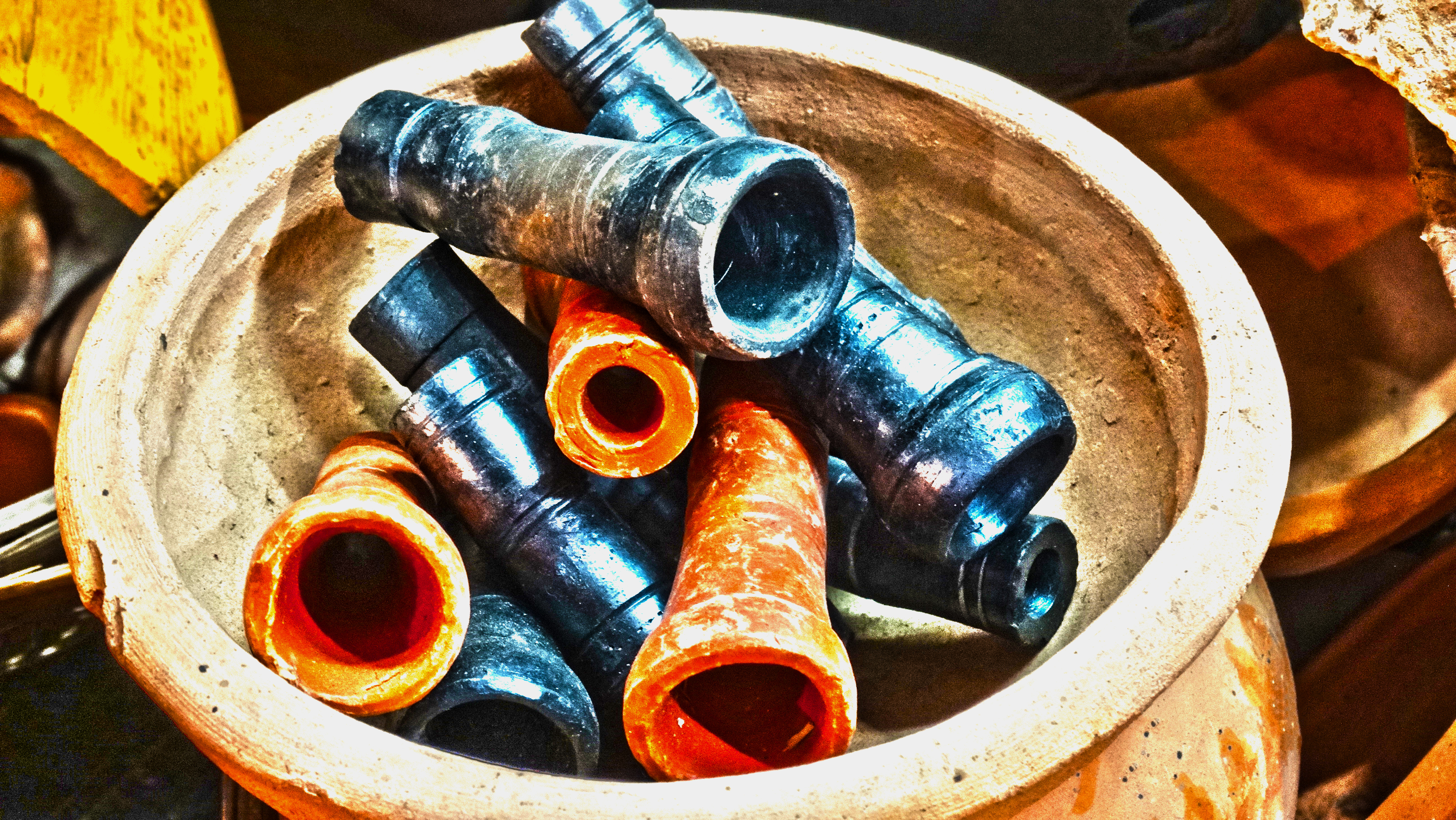 earthen chillam for smoking are being displayed for sale, at chawk bazar Jorhat অসমীয়া: মাটিৰে সজা ভাঙৰ চিলিম